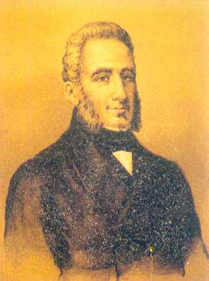 Portrait of Francisco Espoz y Mina (d. 1836) taken from the Spanish wiki. Public domain by age.